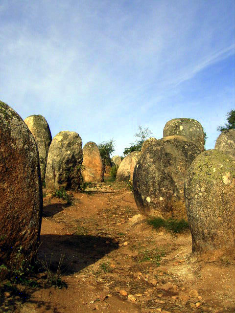 Almendres Cromlech - megalithic complex - near Évora/Portugal